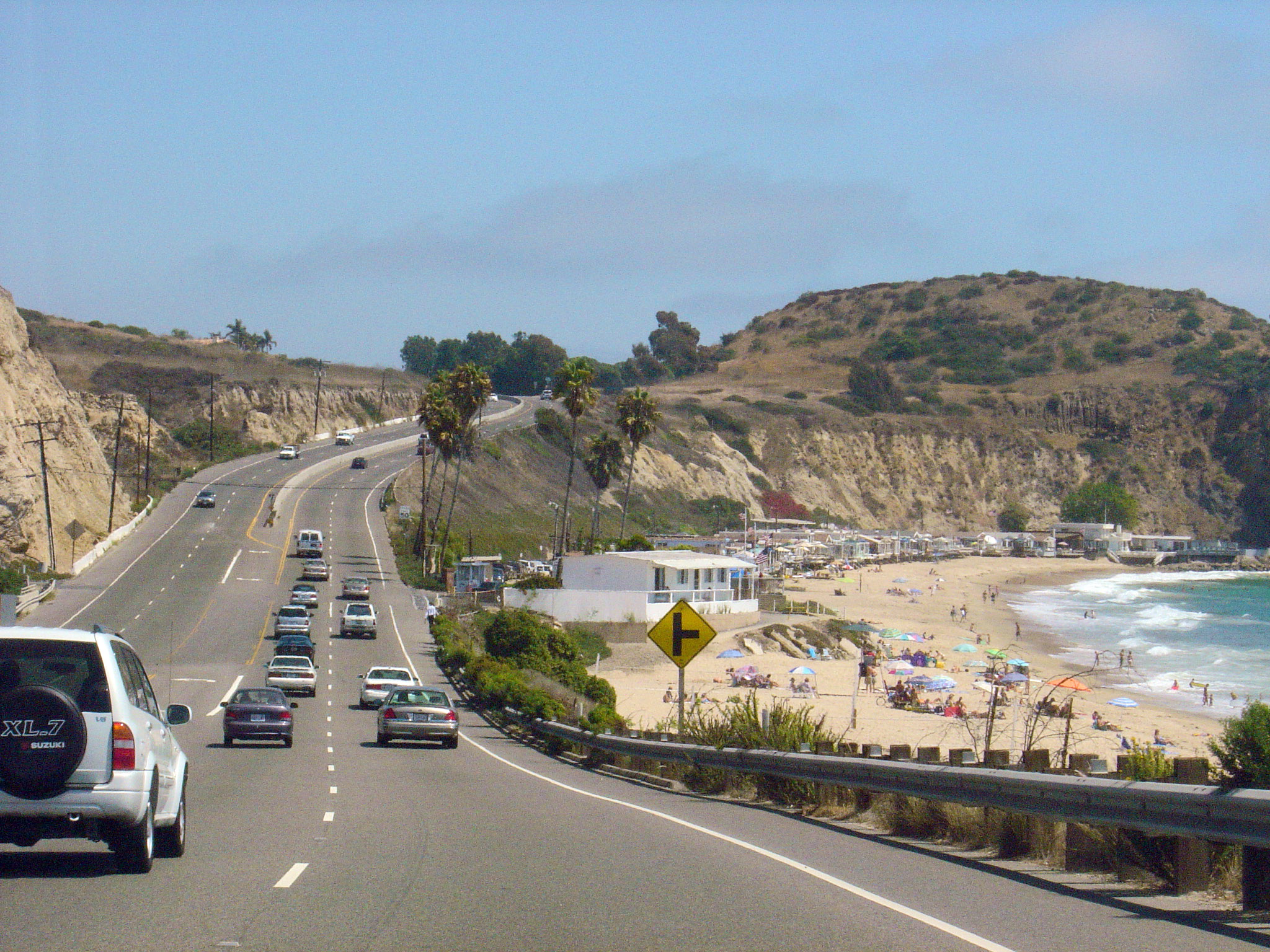 California State Route 1—Pacific Coast Highway — south-bound near Laguna Beach, in Orange County, Southern California.